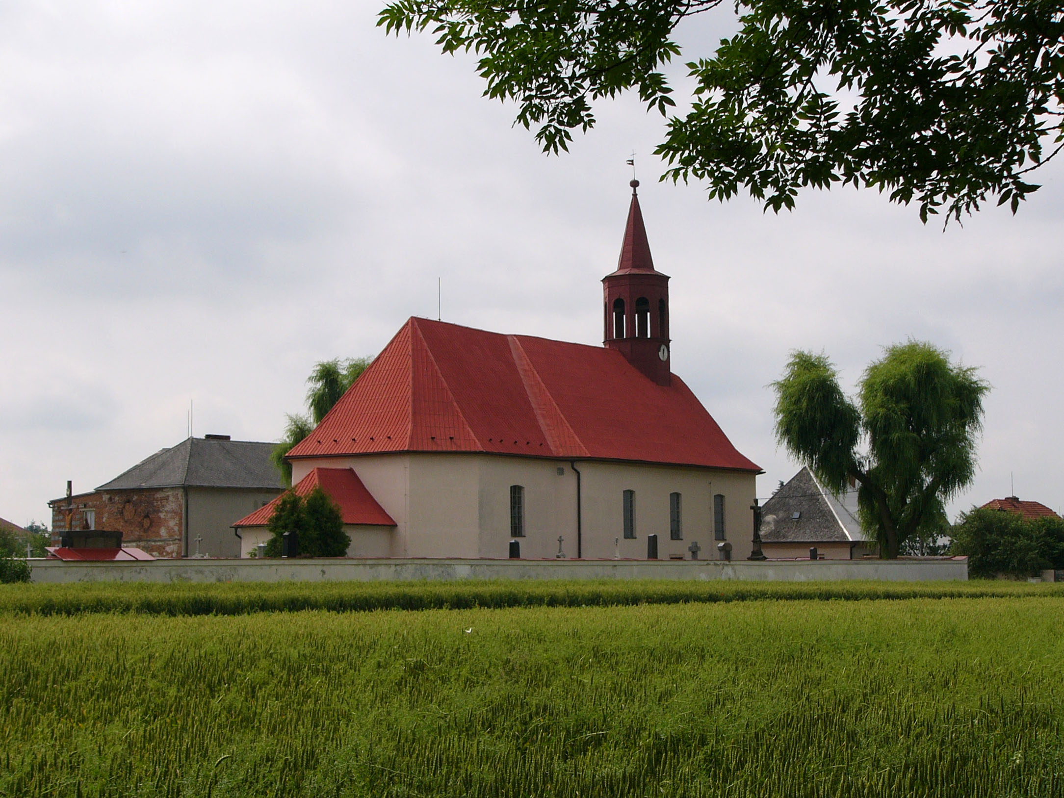 Church in Renoty (Czech Republic).